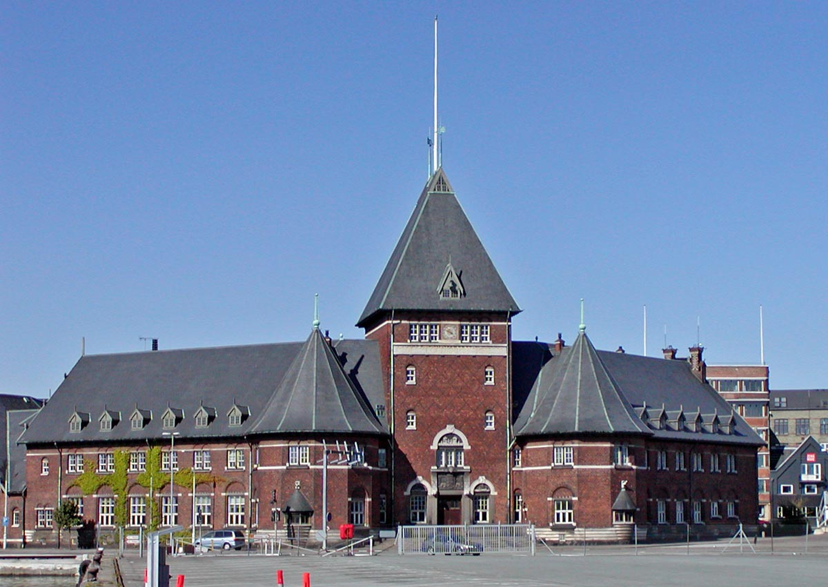 Photo of custom house (Toldbod) in Aarhus Denmark